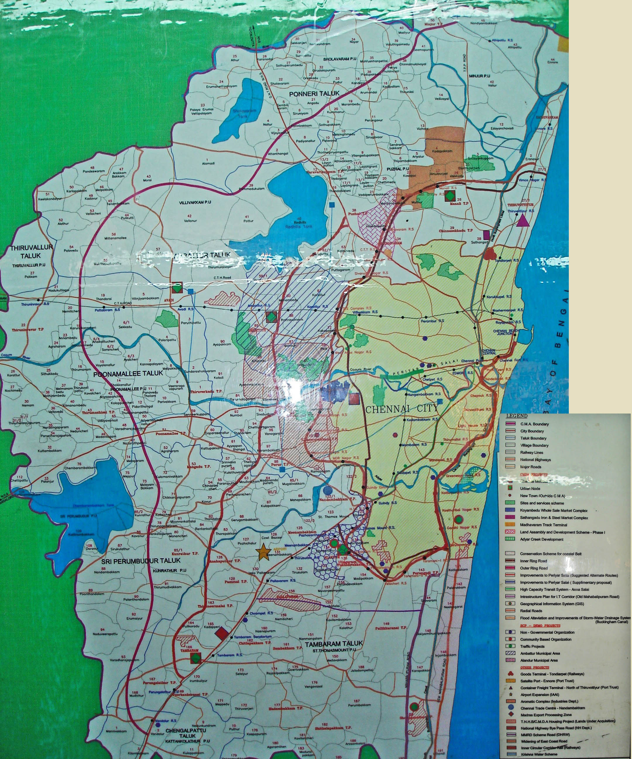 CMDA masterplan and ongoing works in the Chennai Metropolitan Area.